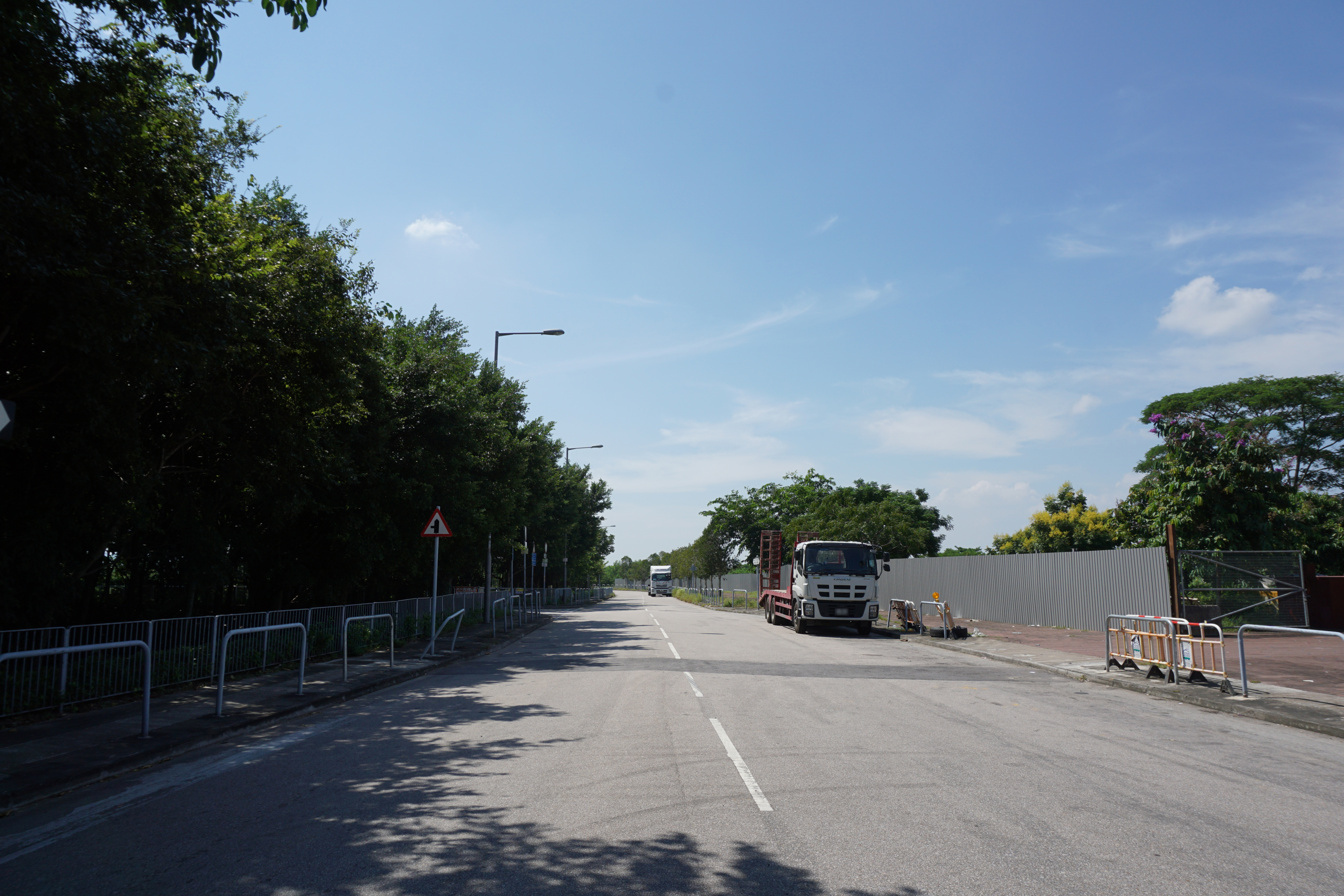 Kam Pok Road in Tai Sang Wai, Hong Kong.